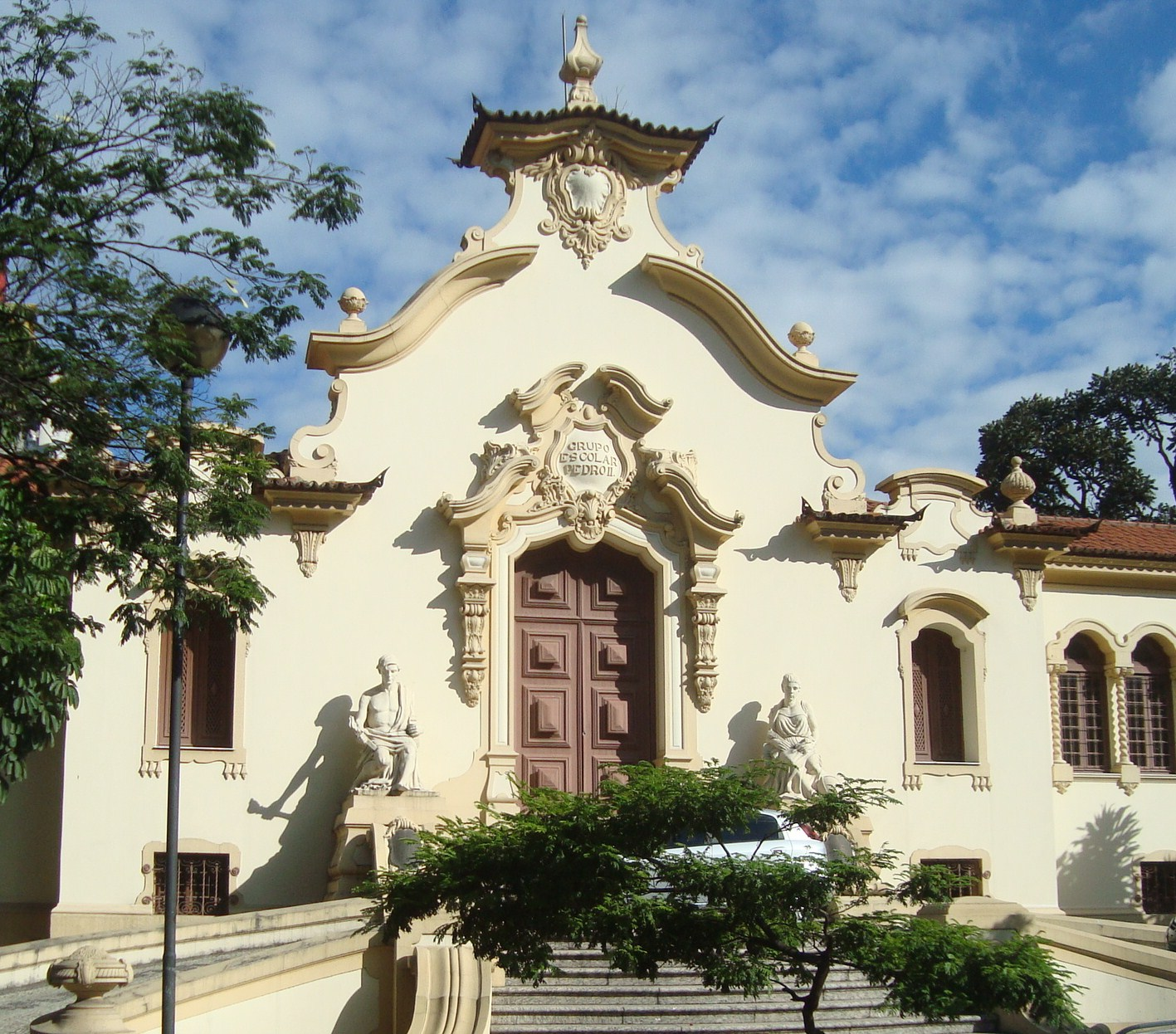 Dom Pedro II School in Belo Horizonte, Minas Gerais, Brazil